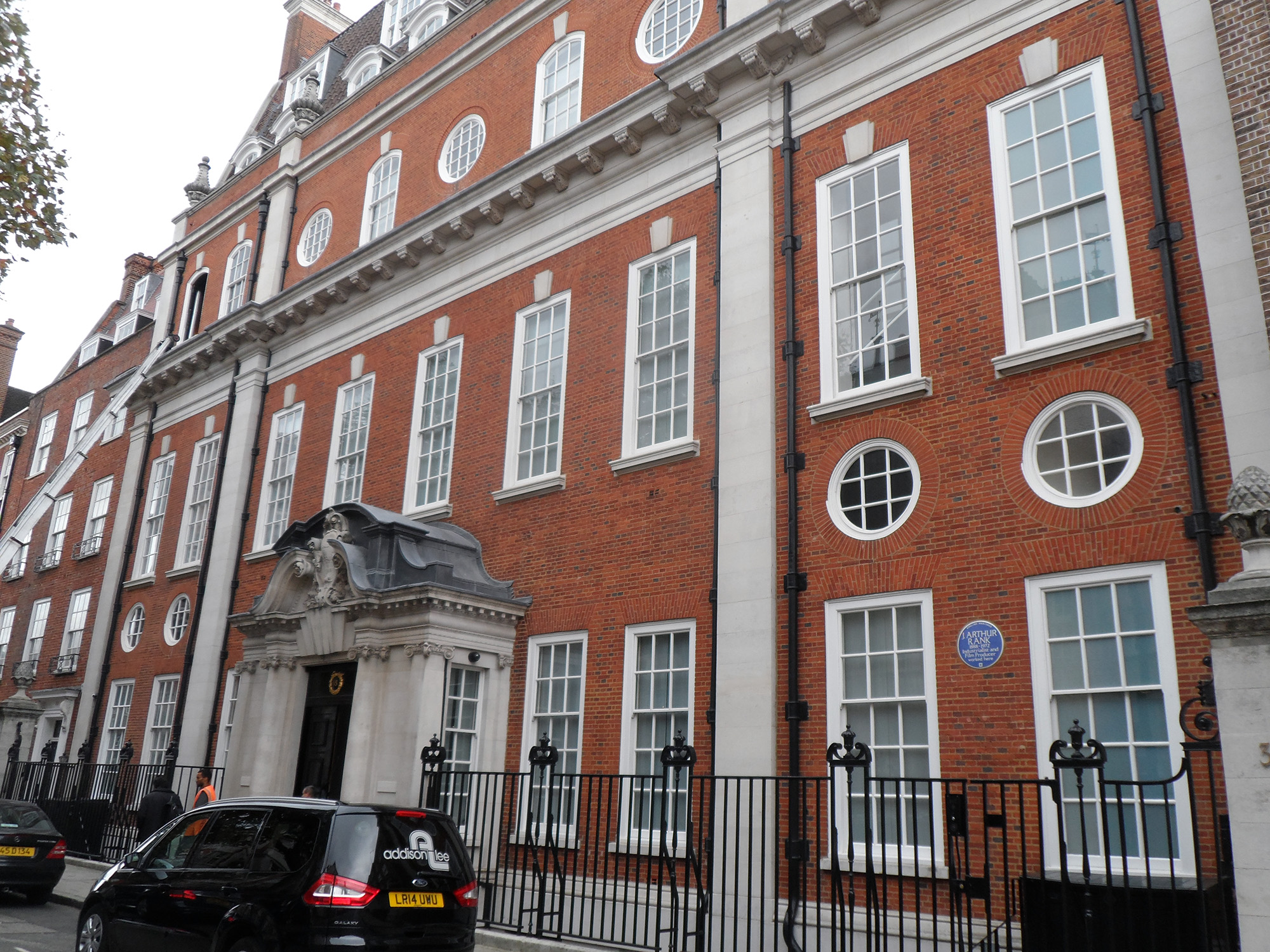 J. ARTHUR RANK 1888-1972 Industrialist and Film Producer worked here